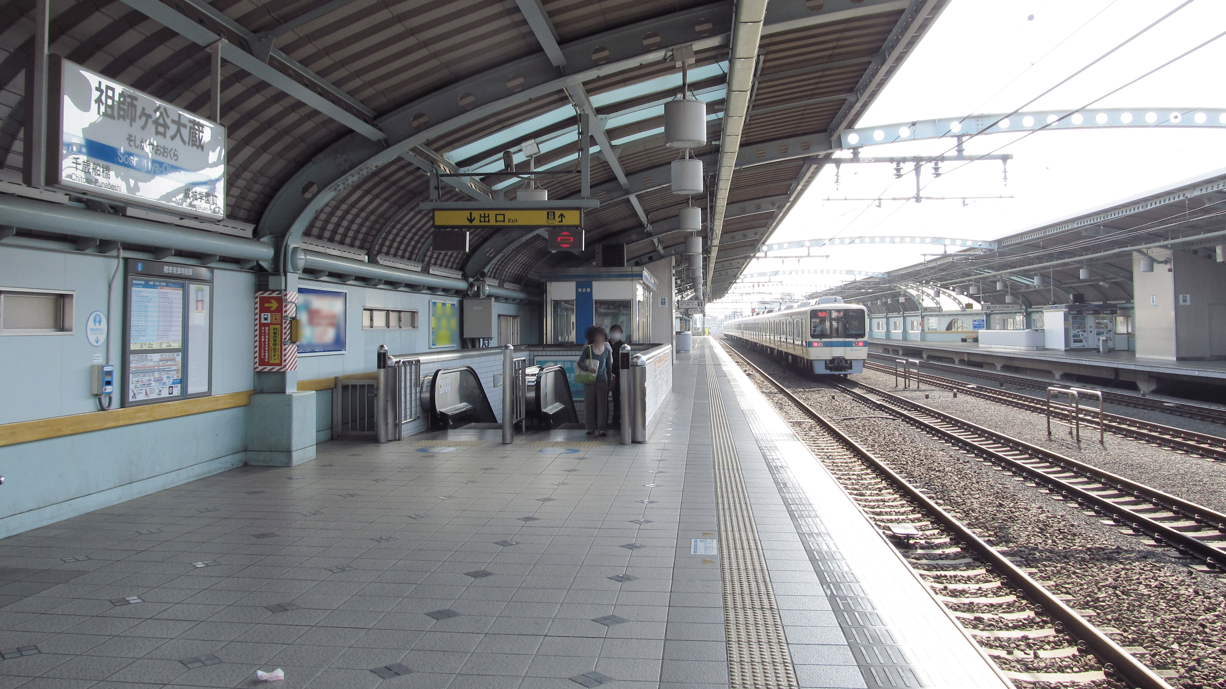 The platforms at Soshigaya-Ōkura Station on the Odakyū Electric Railway Odawara Line in Setagaya city, Tokyo, Japan